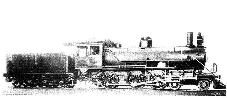 Ex Cape Government Railways Class 6 (4-6-0) South African Railways Class 6K (4-6-0)